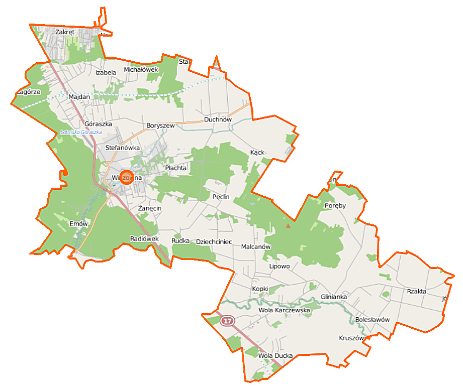 Map of Gmina Wiązowna, Poland This map of Wiązowna (gmina) was created from OpenStreetMap project data, collected by the community. This map may be incomplete, and may contain errors. Don't rely solely on it for navigation. Border coordinates52.230721.2345←↕→21.487552.0991